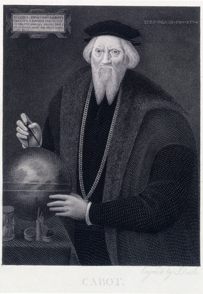 Engraving of the navigator and cartographer Sebastian Cabot (1474 - 1557), after an original by Hans Holbein [or the original may perhaps have been a close copy], that was destroyed by fire in 1845.